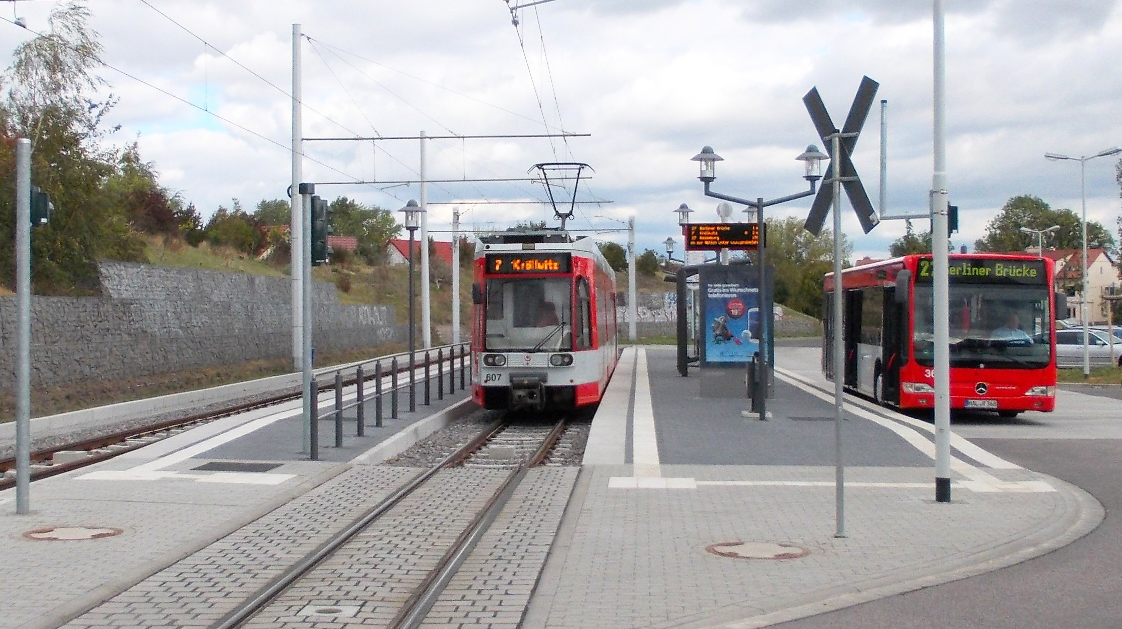 The new tram terminus in Büschdorf (Halle/Saale, Saxony-Anhalt)